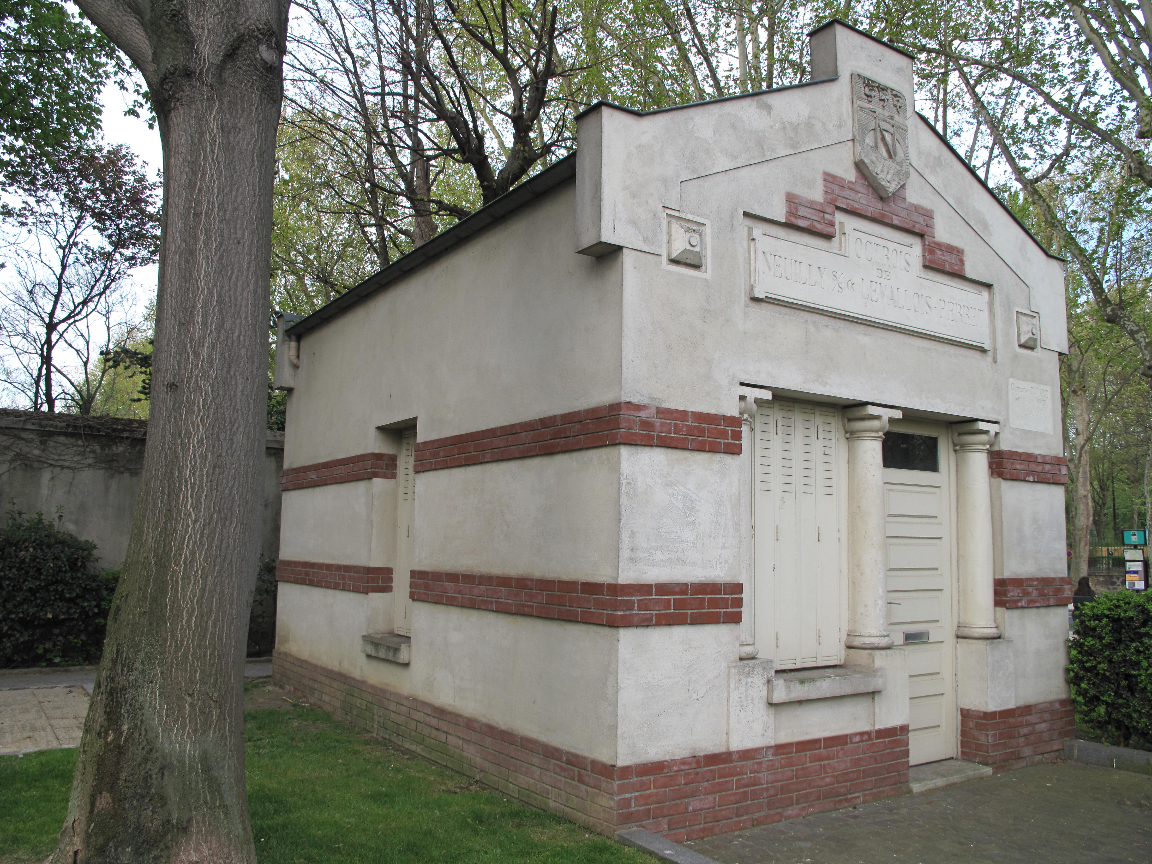 One of the Octroi buildings (a collecting-booth for taxes on goods, former local tax station) on the line between Neuilly and Levallois-Perret (Hauts-de-Seine, France). See also: Octroi de Neuilly, 45 Avenue de la Porte de Villiers, Rue Parmentier at Carrefour Bineau, 92300 Neuilly-sur-Seine, France.